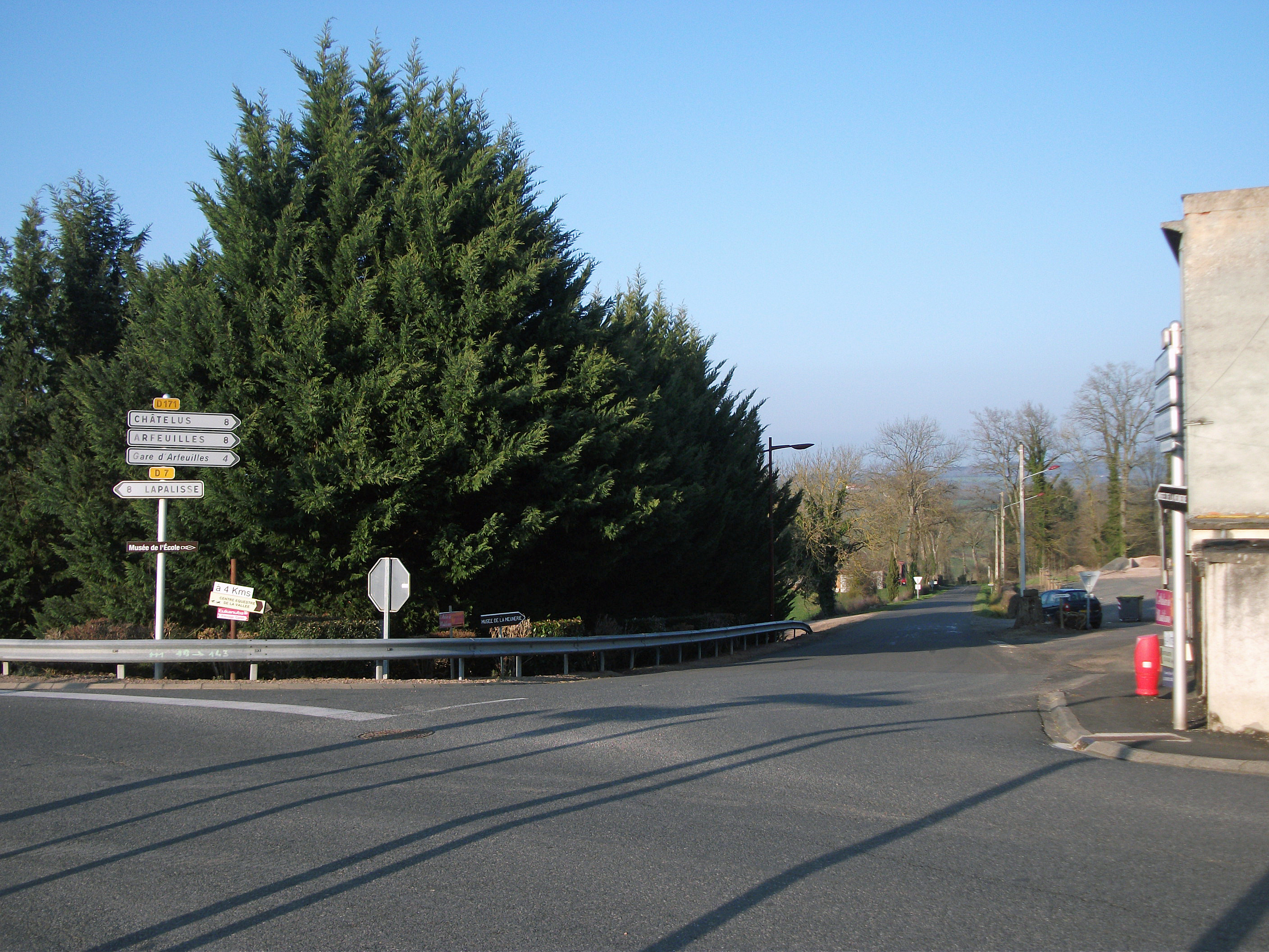 Departmental road 171 towards Châtelus, Arfeuilles, in Le Breuil, Allier [10390]